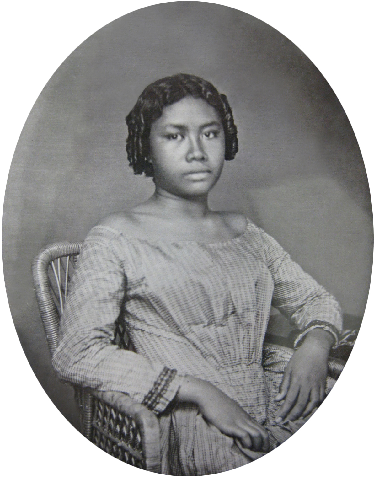 Lydia Kamakaʻeha Pākī, the future Queen Liliuokalani, in her youth possibly at the Royal School (the day school ran by Edward G. Beckwith).